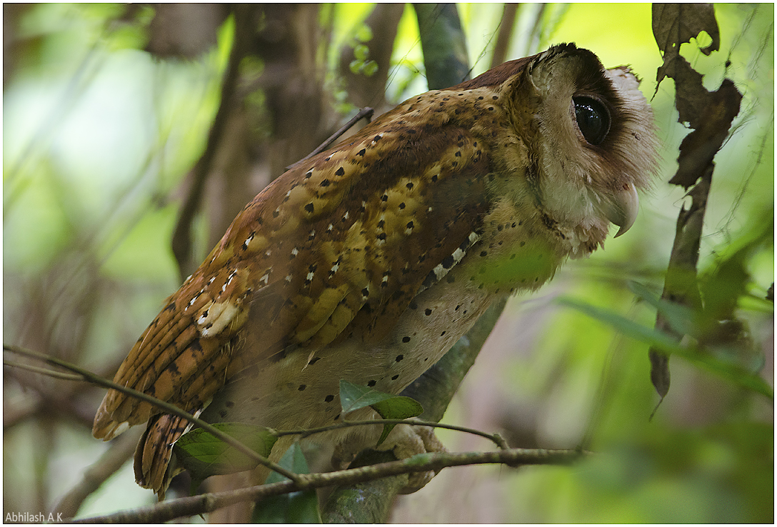 Side view of Sri Lanka Bay Owl Phodilus assimilis shot at Arippa forest, Trivandrum, Kerala, India on October 2015